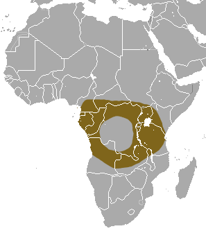 Turbo Shrew (Crocidura turba) range